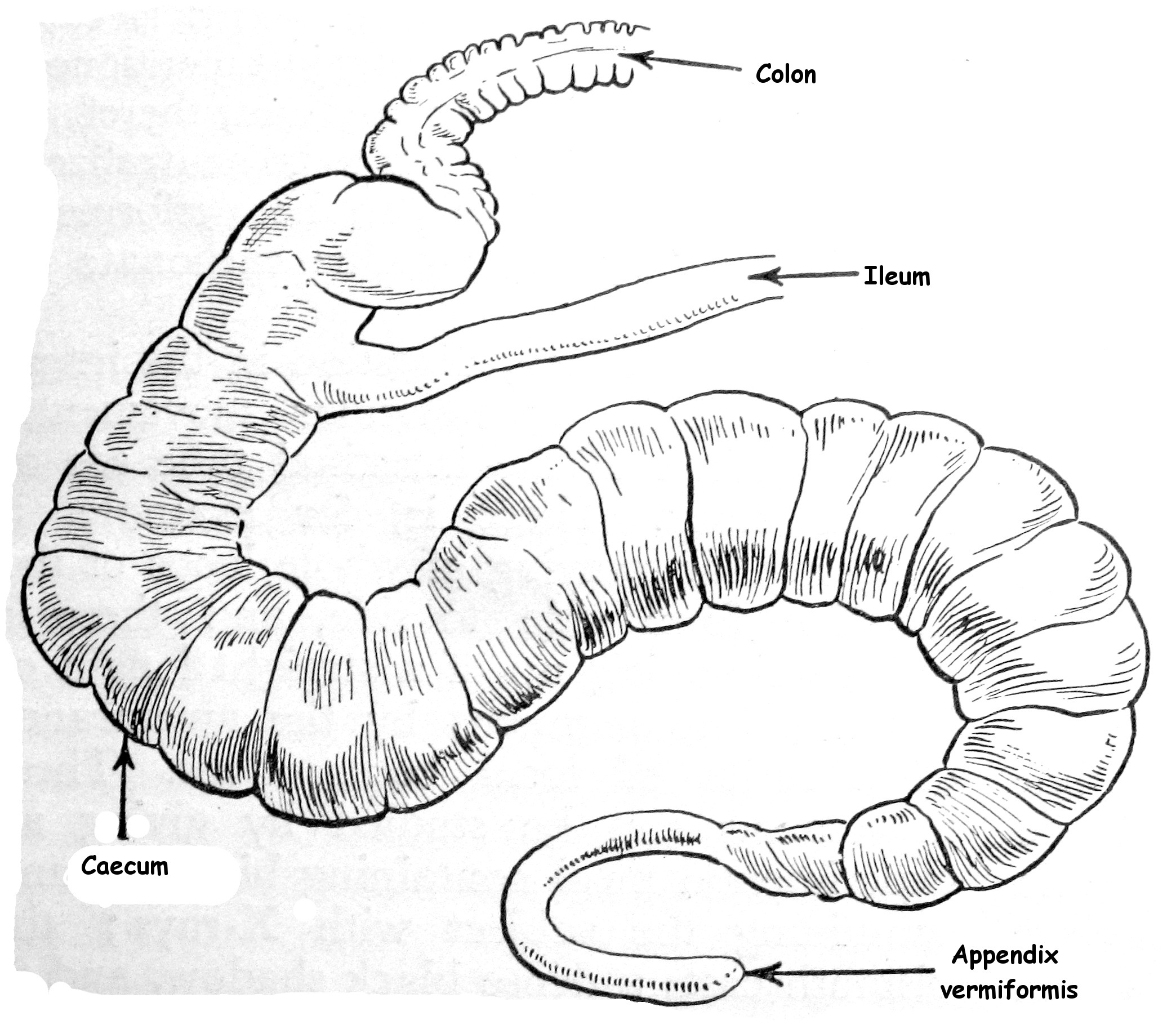 Line drawing of junction of ileum, Caecum and Colon plus Appendix vermiformis of rabbit.